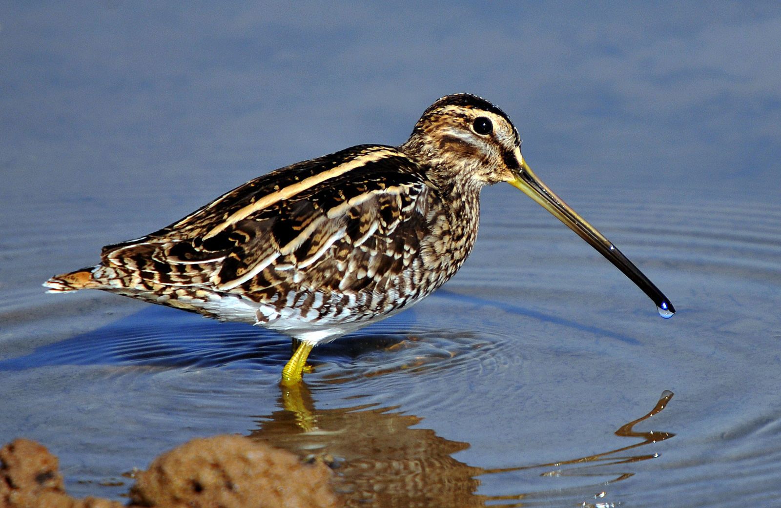 Common snipe Kurdî: Herîrosik